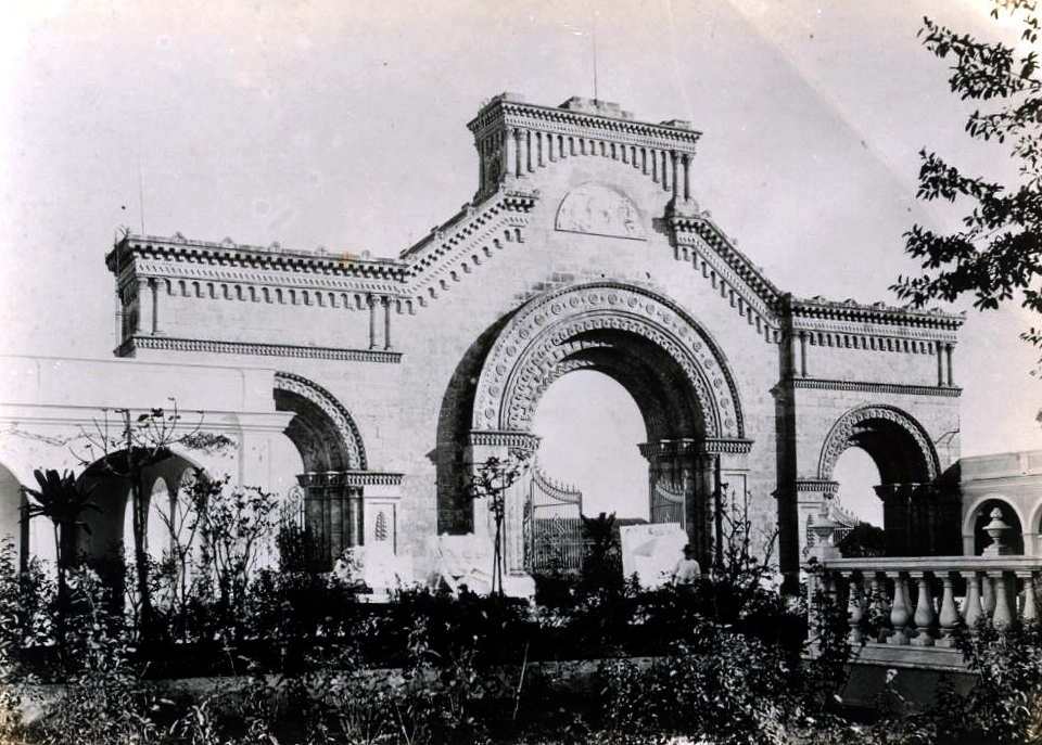 Colon cemetery main gate before 1901. Havana, Cuba